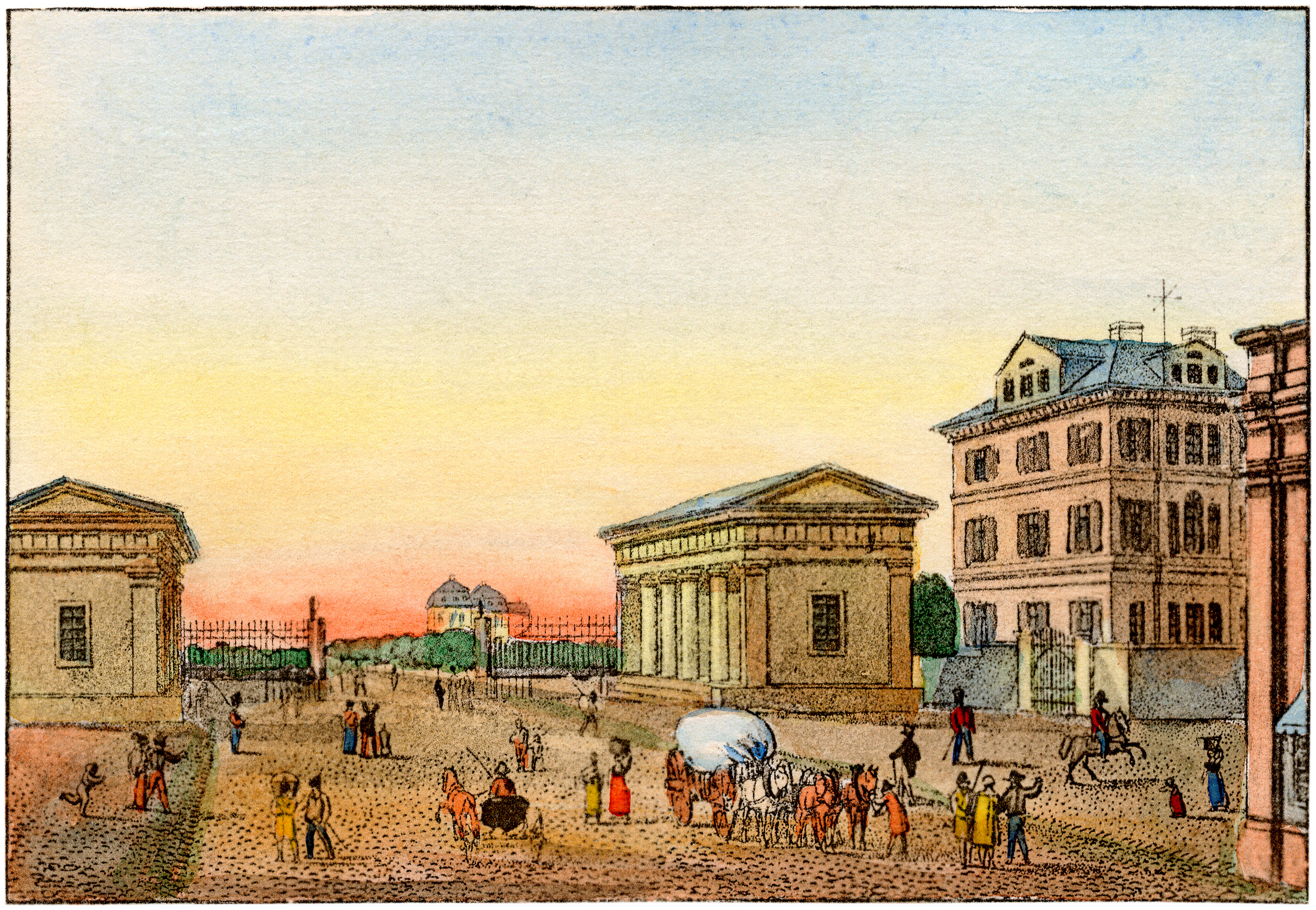 Frankfurt on the Main: The Bockenheimer-Thor (Bockenheimer Gate) at Frankfurt a/m.